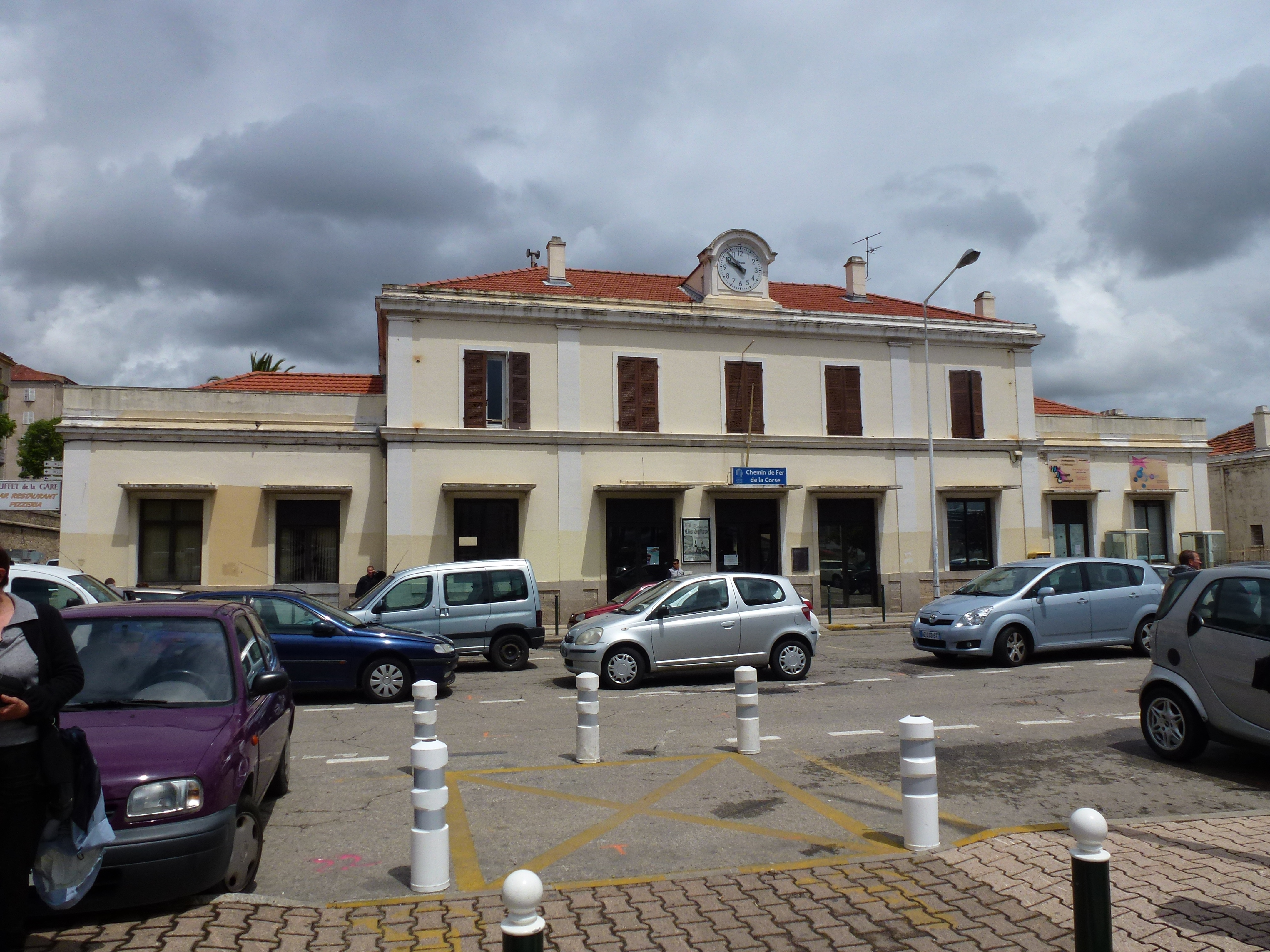 Railway station Ajaccio, street side, Corsica, France